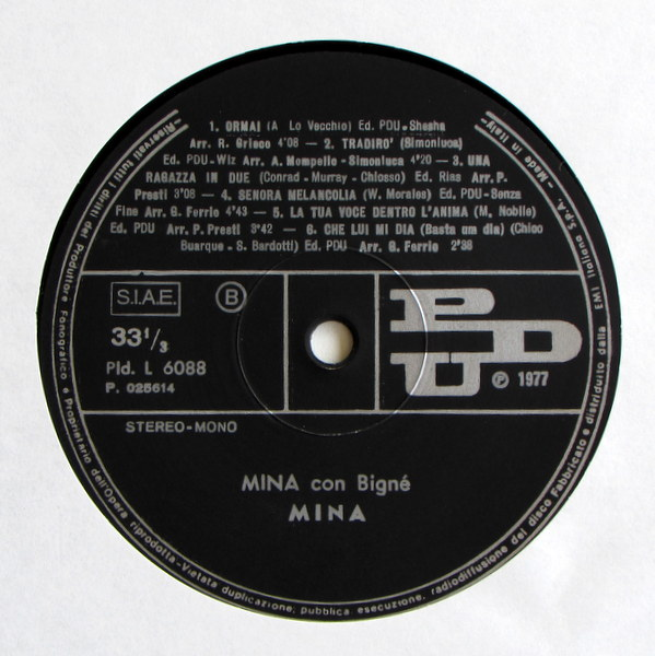 Label of Mina Mazzini's album "Mina con Bigné"